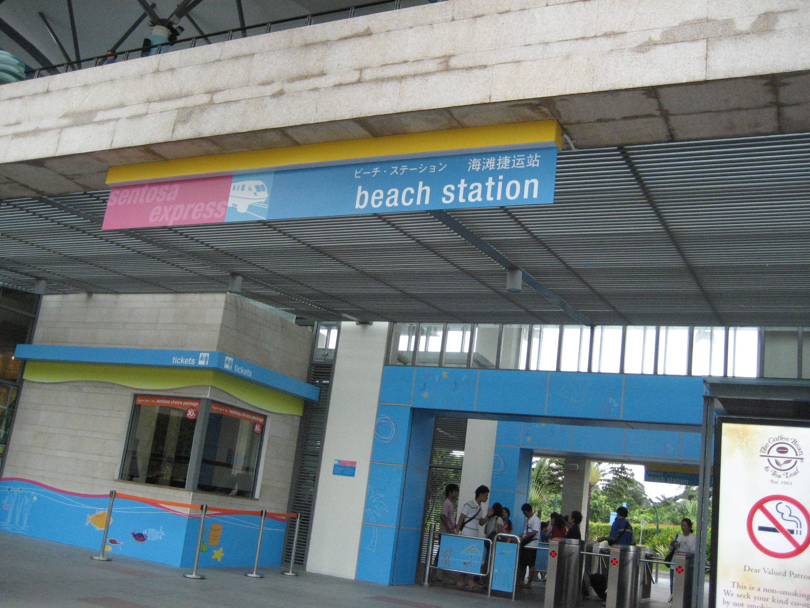 Beach_station_of Sentosa Express monorail at_Sentosa_island,_Singapore